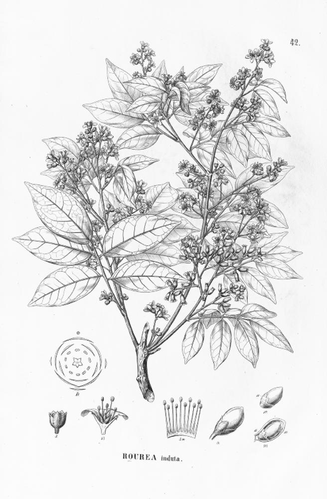 Illustration of Rourea induta